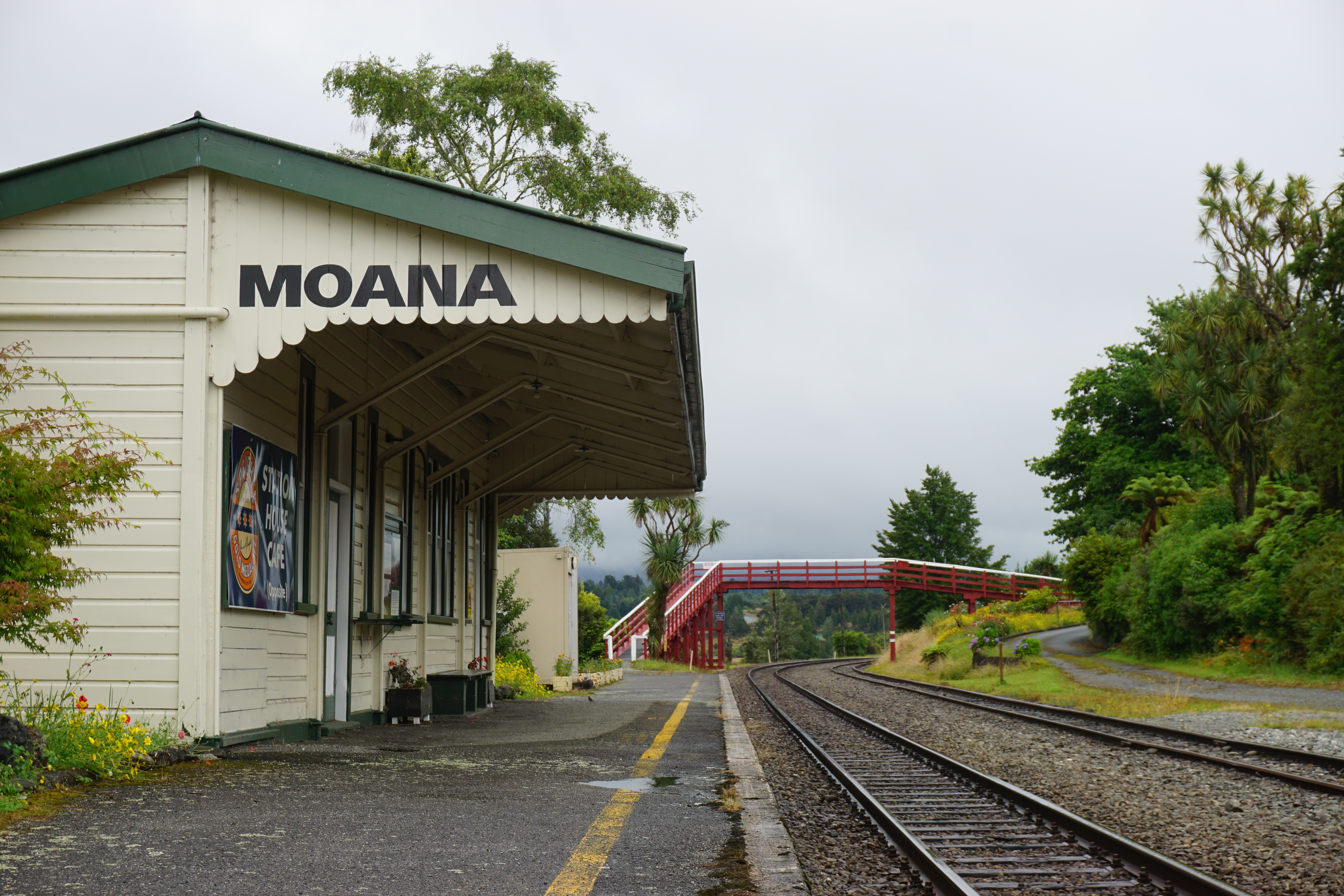 Moana railway station on the Midland Line, looking westward towards the pedestrian overbridge.